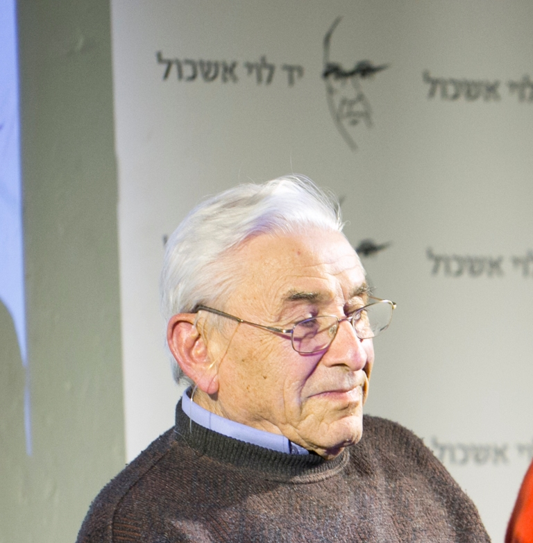 David Golomb in an event honoring the late prime minister Levi Eshkol, 2017.